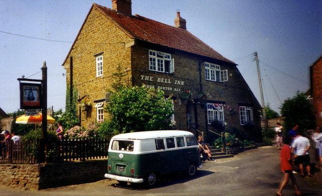 The Bell Inn, Great Bourton, Oxfordshire, seen from the southeast on Cropredy Festival weekend in 1995